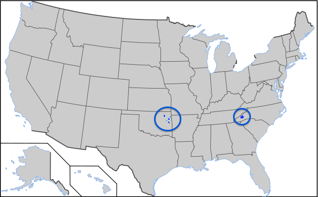 Distribution of Cherokee language speakers.